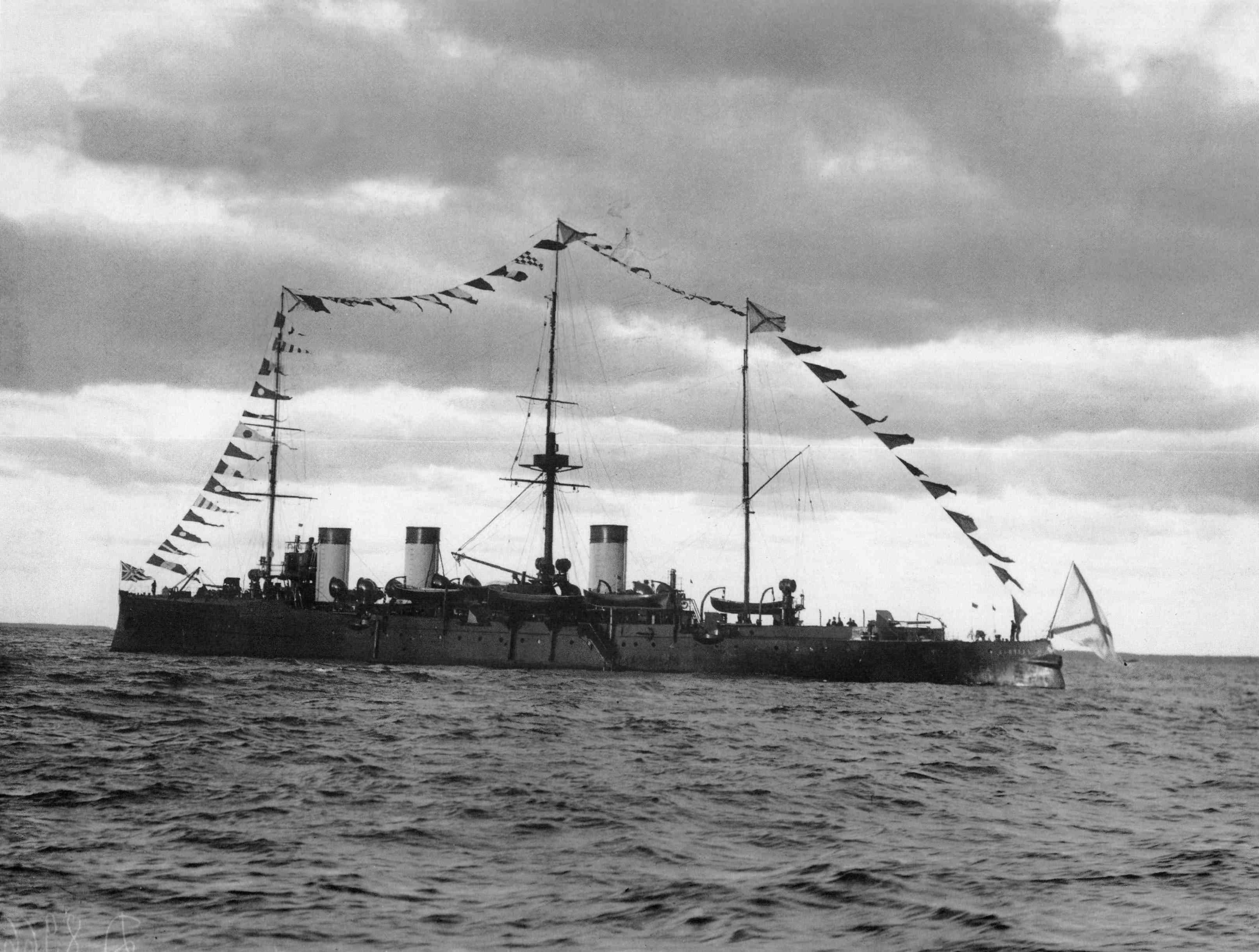 The Imperial Russian cruiser Zhemchug in Reval, 27 September 1904.